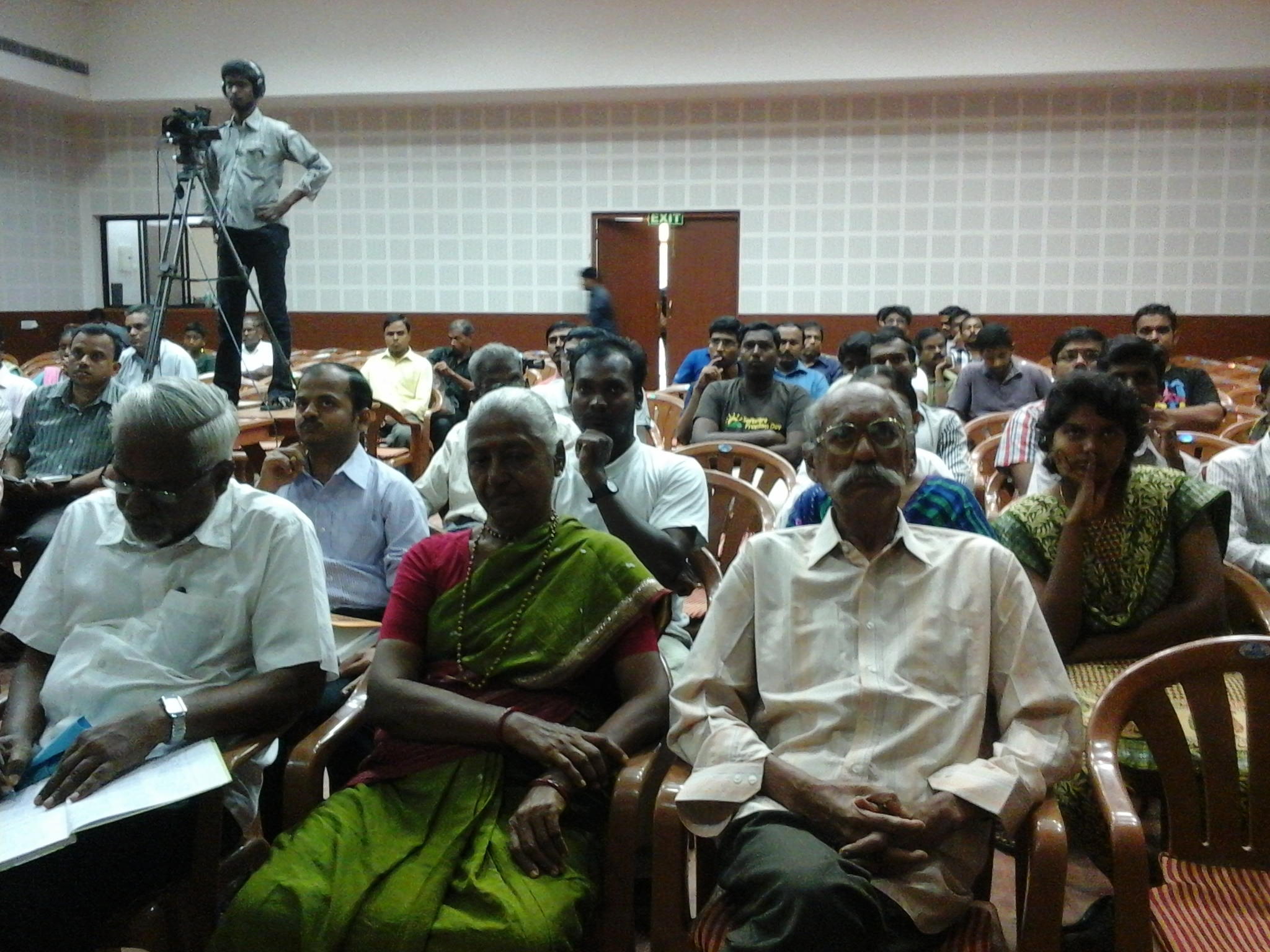 Tamil wikipedia 10 years celebrations:Sengai pothuvan with Sengai selvi